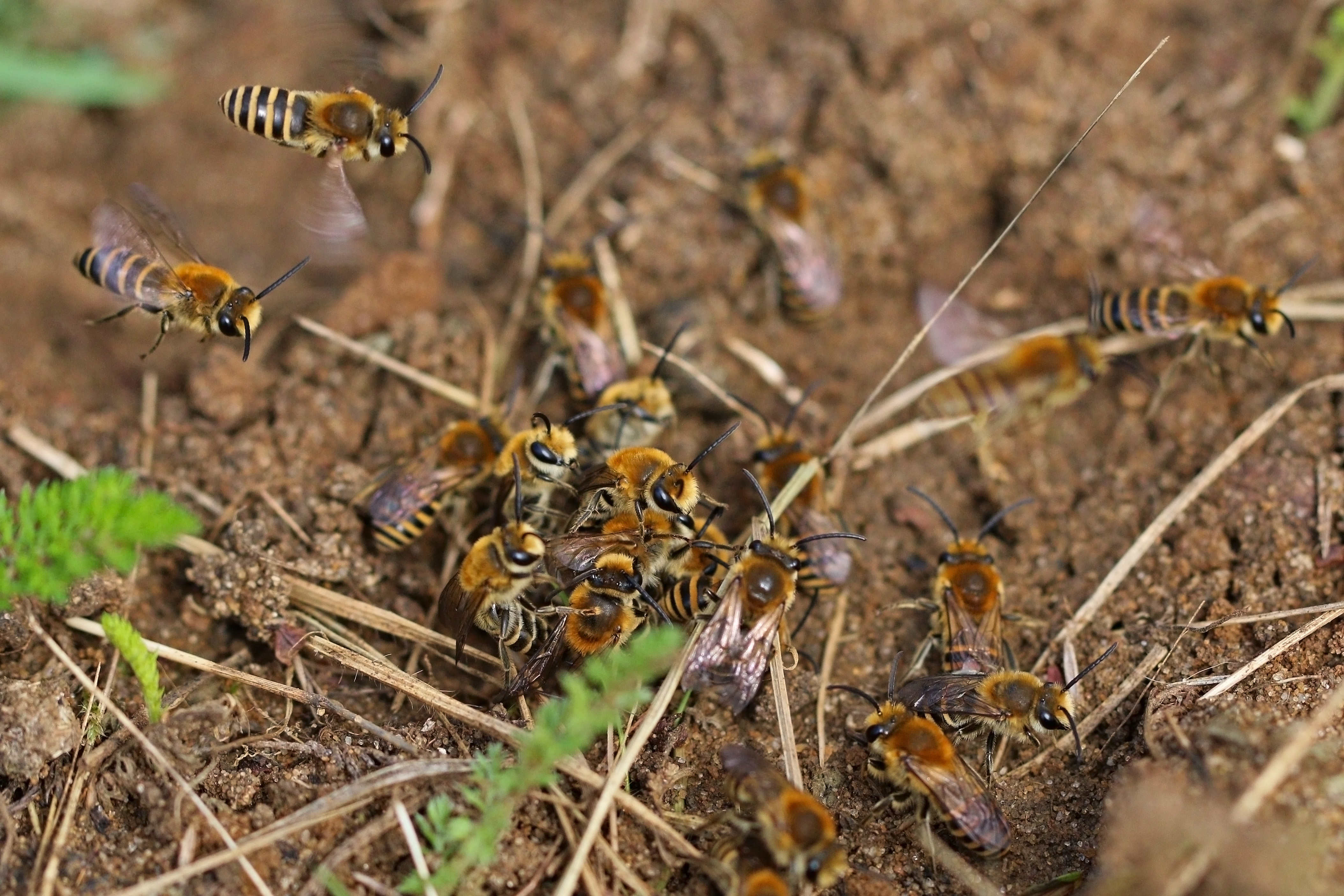 Ivy bees (Colletes hederae) males in a mating cluster, Dry Sandford Pit, Oxfordshire